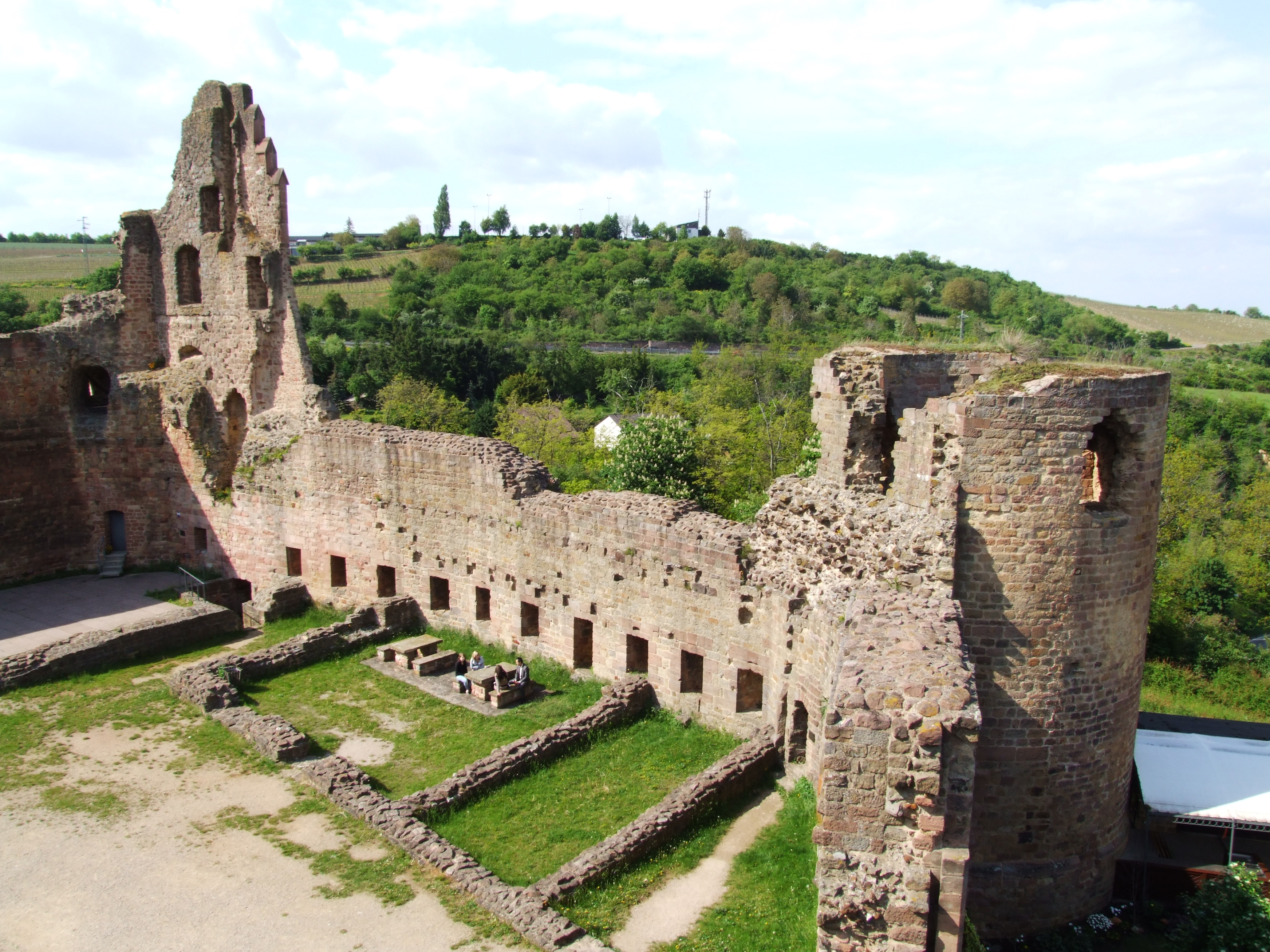 Burg Neuleiningen, north side